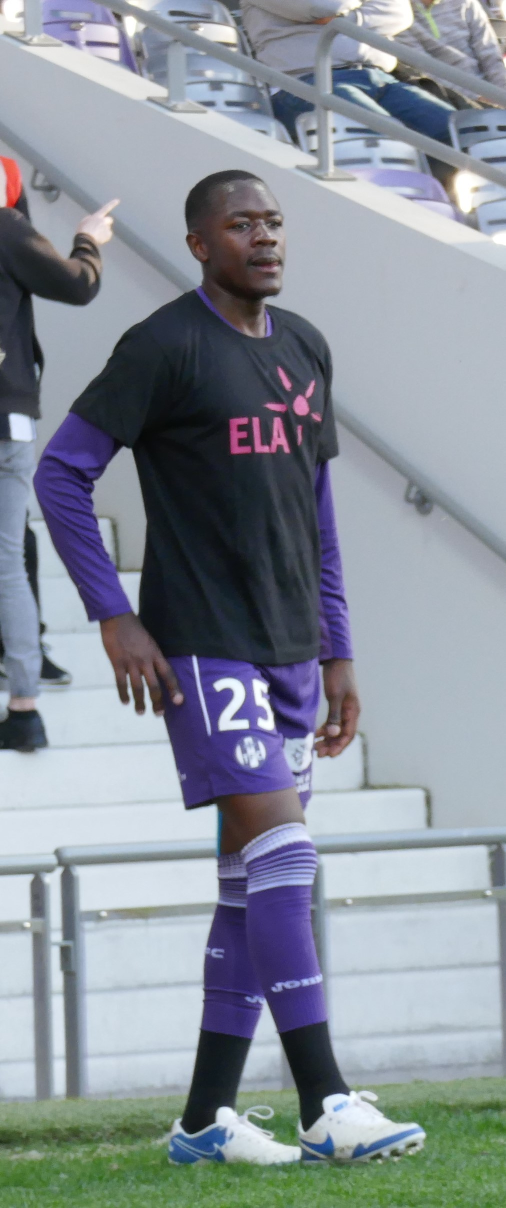 Giannelli Imbula during the warm-up of the match Toulouse FC - Angers SCO played for the 34th leg of the 2017-2018 Ligue 1 season, the 21th April of 2018.